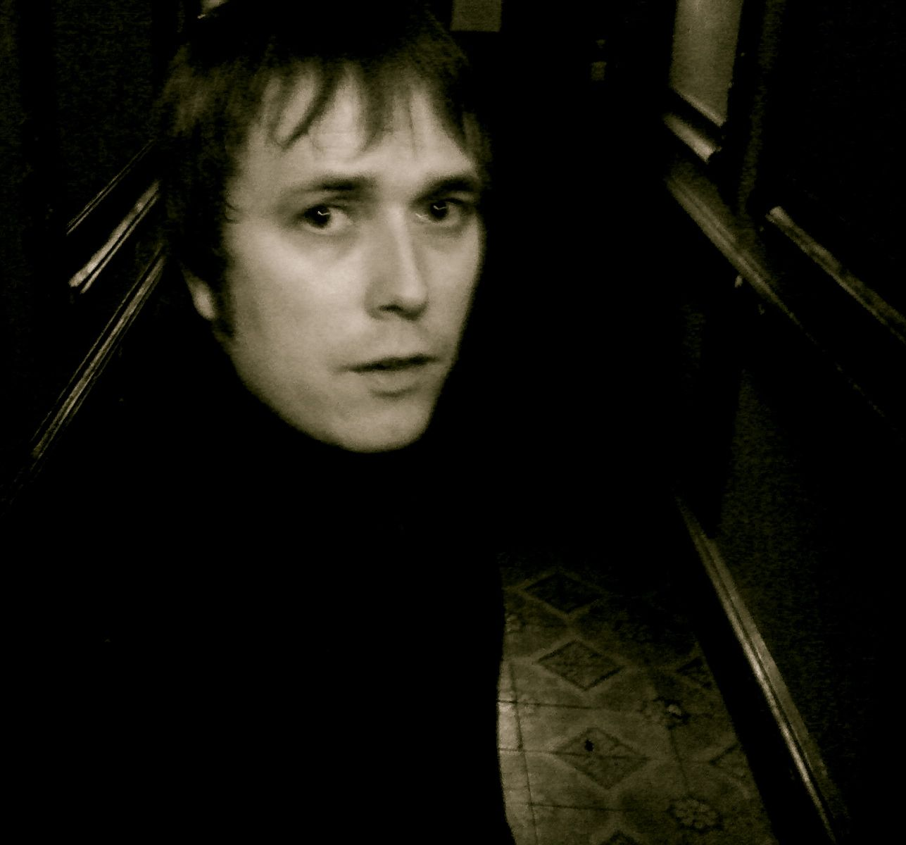 Vidar Vang official press photo, 2009. Photo by Alexander Kloster-Jensen